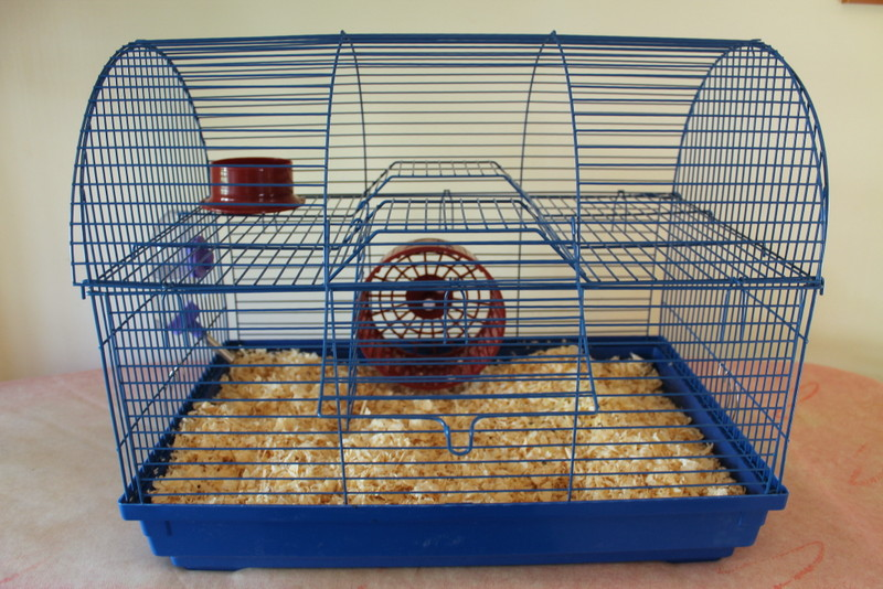 Hamsters cage